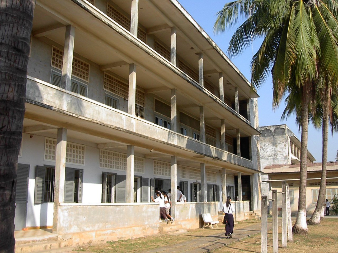 Photographed and uploaded to English Wikipedia by User:Adam Carr